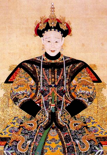 The Imperial Portrait of the Qing Dynasty Empress Dowager Gongci